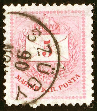 5 kr KH anilin-rose issue 1881, cancelled at Szügy in 1890. Michel N°23A.